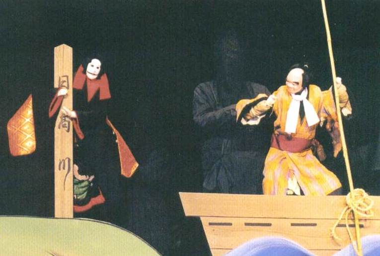 self